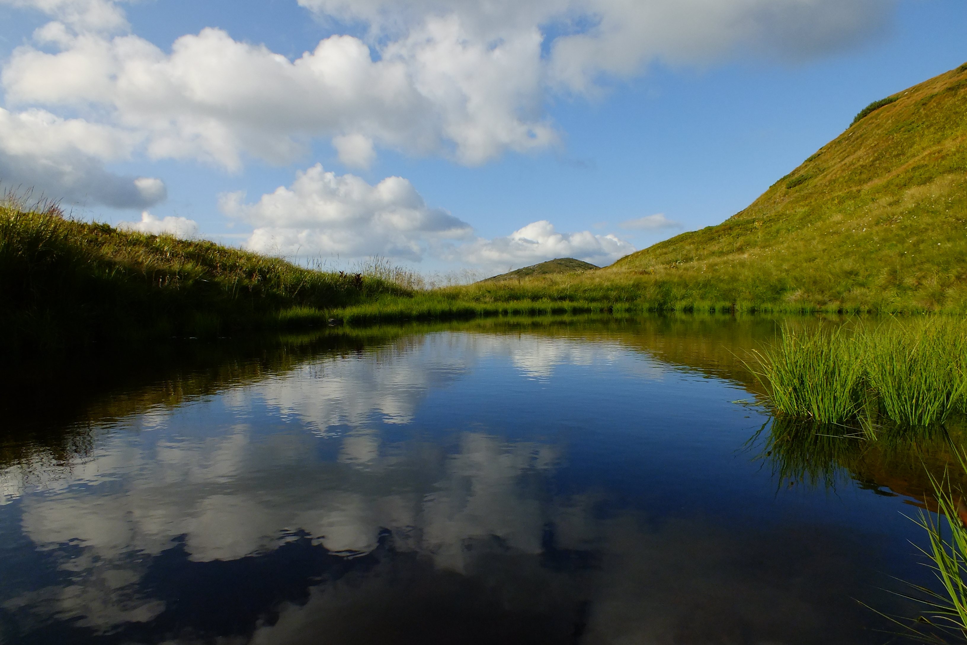 Unnamed lake in group of Ozirky lakes